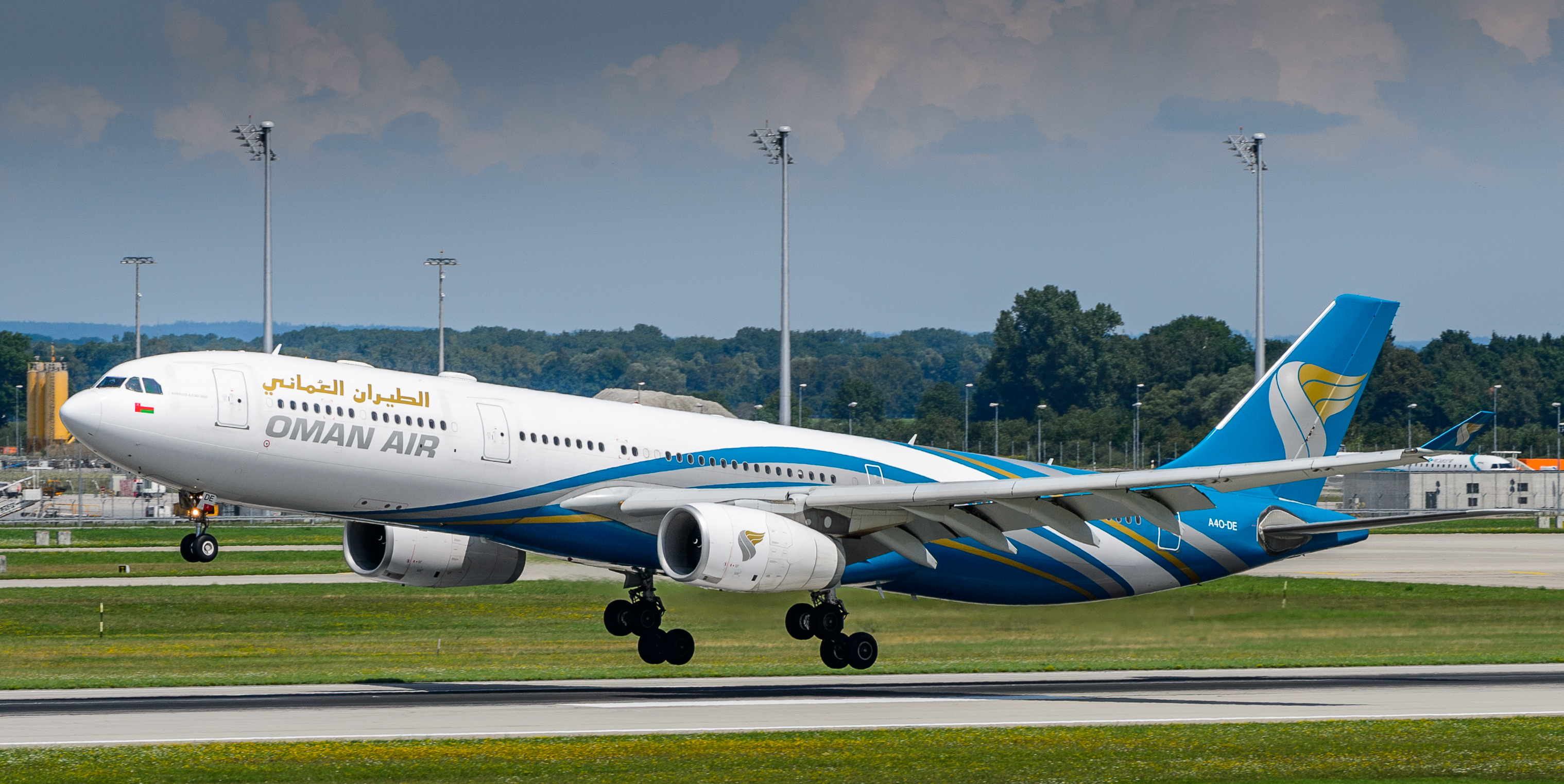 Airbus A-330 A40-DE of Oman Air, in landing at Munich Airport (EDDM).